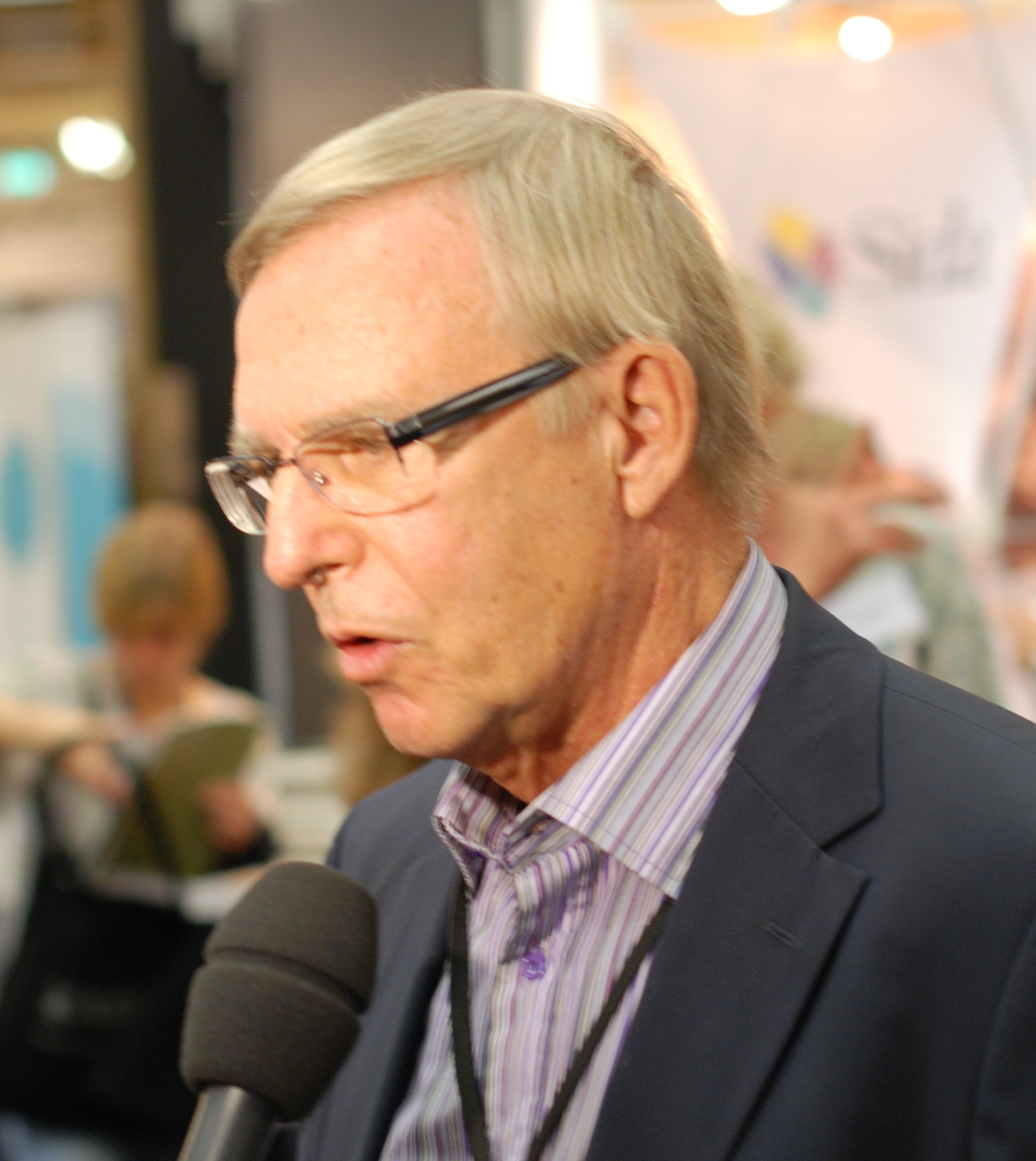 Swedish diplomat Sten Rylander at the Göteborg Book Fair 2010